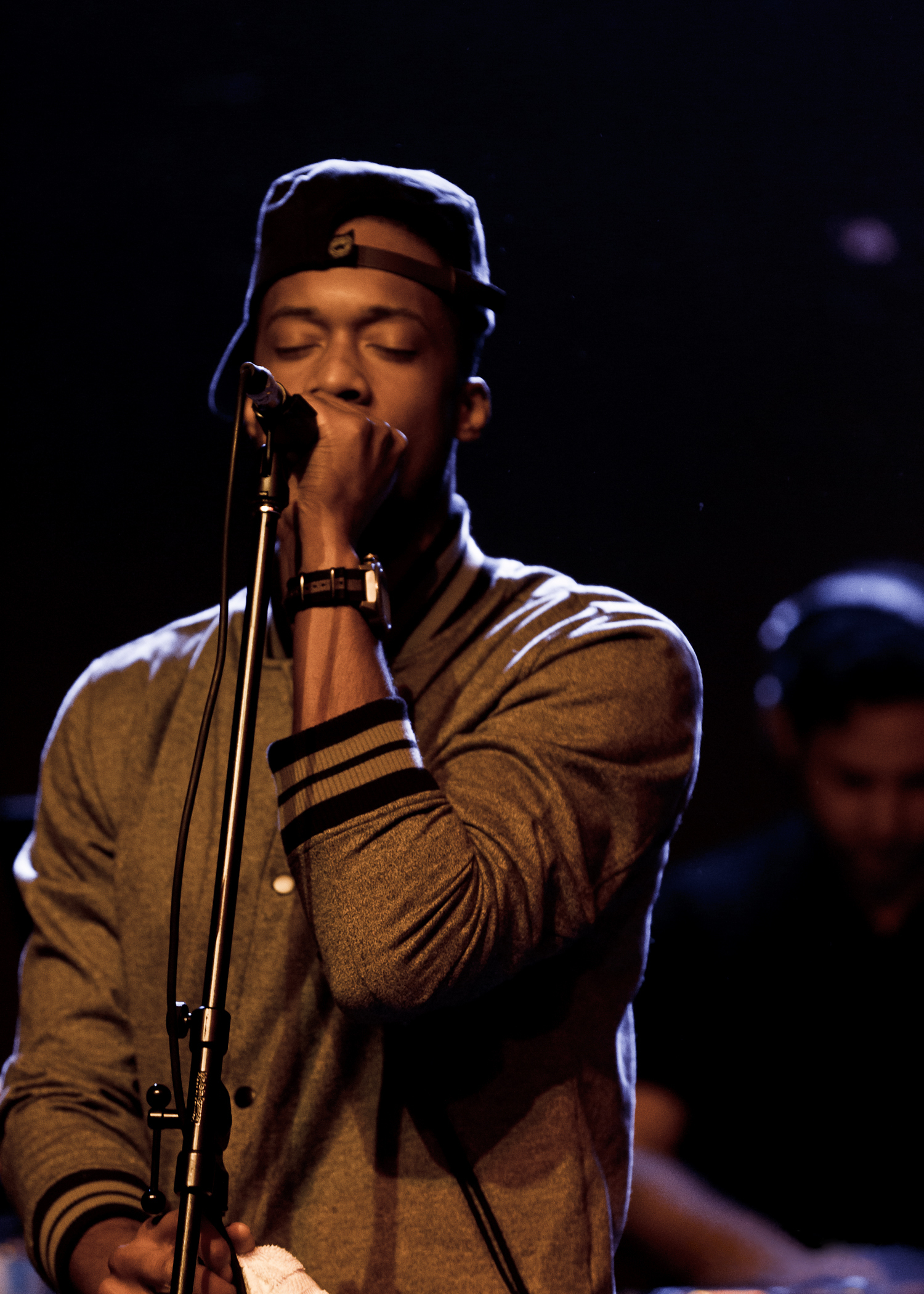 Black Milk performing in Toronto, Ontario, Canada